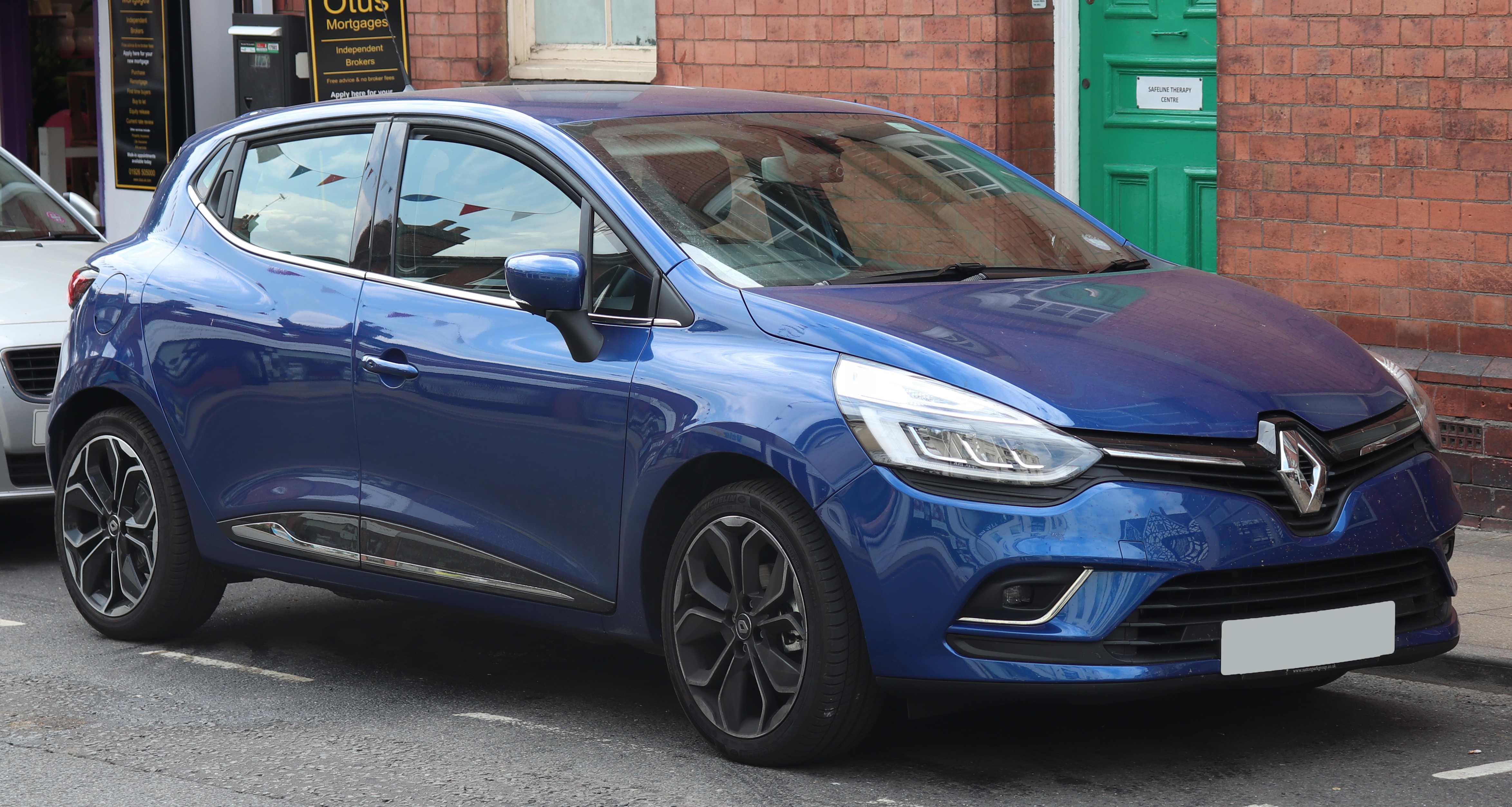 2018 Renault Clio Dynamique S NAV TCE 900cc Front Taken in Warwick